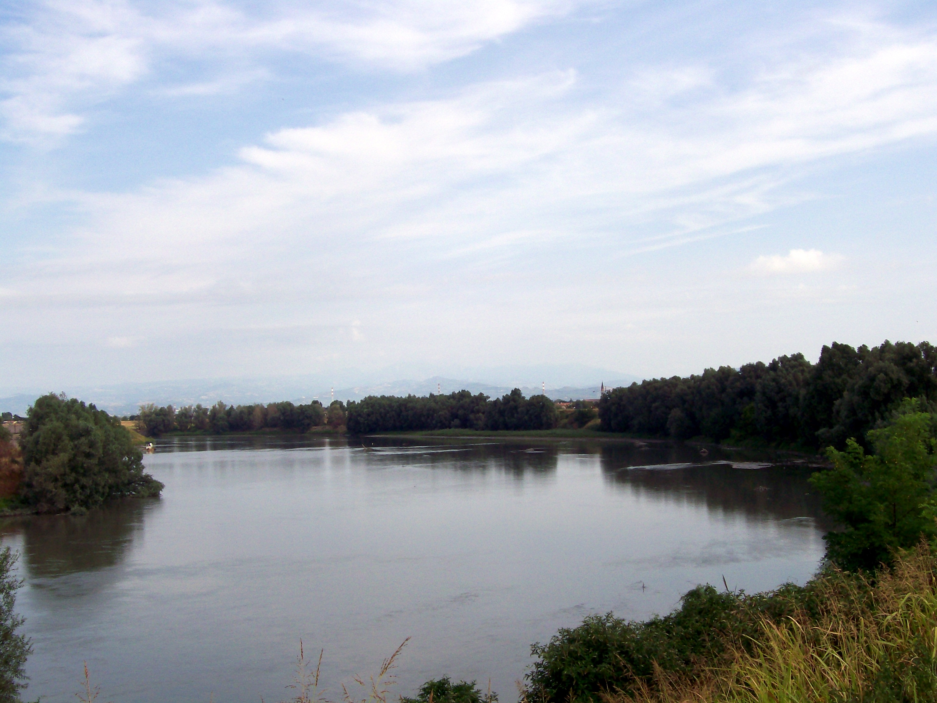 Adige river near Albaredo d'Adige (Verona)